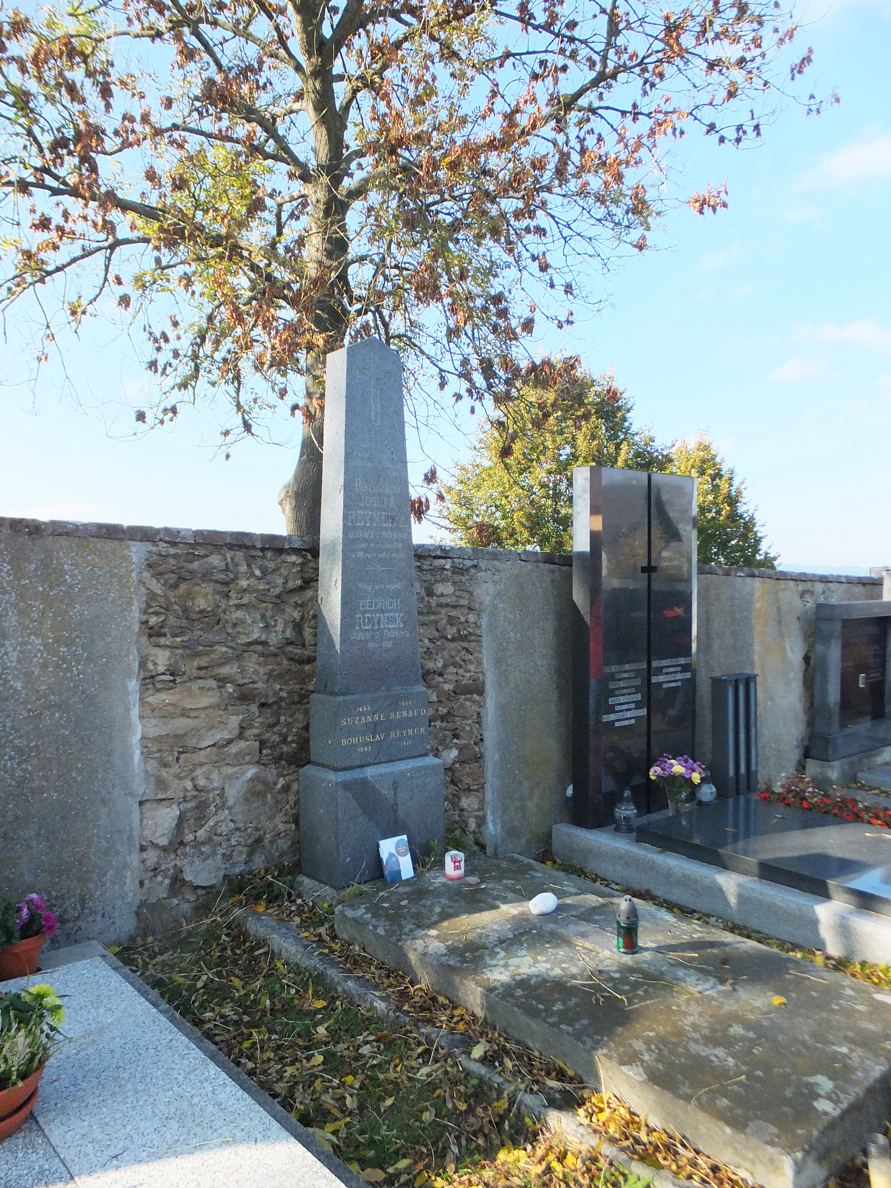 The grave of the Reynek family, including Czech catholic poet and translator Bohuslav Reynek and his wife French poet Suzanne Renaud